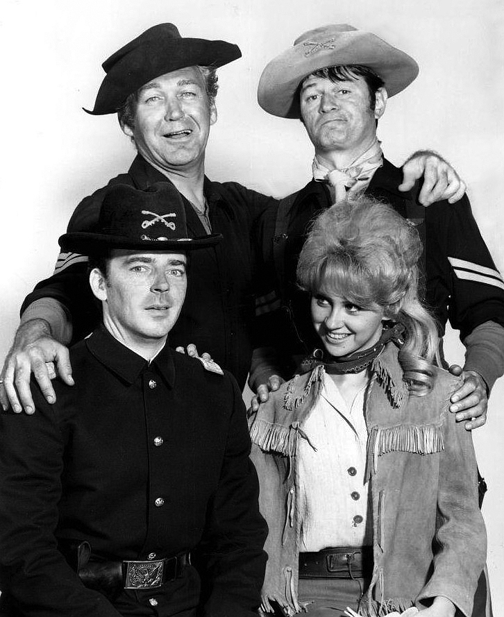 Main cast photo from the television program F Troop. Standing from left: Forrest Tucker and Larry Storch. Seated: Ken Berry and Melody Patterson.